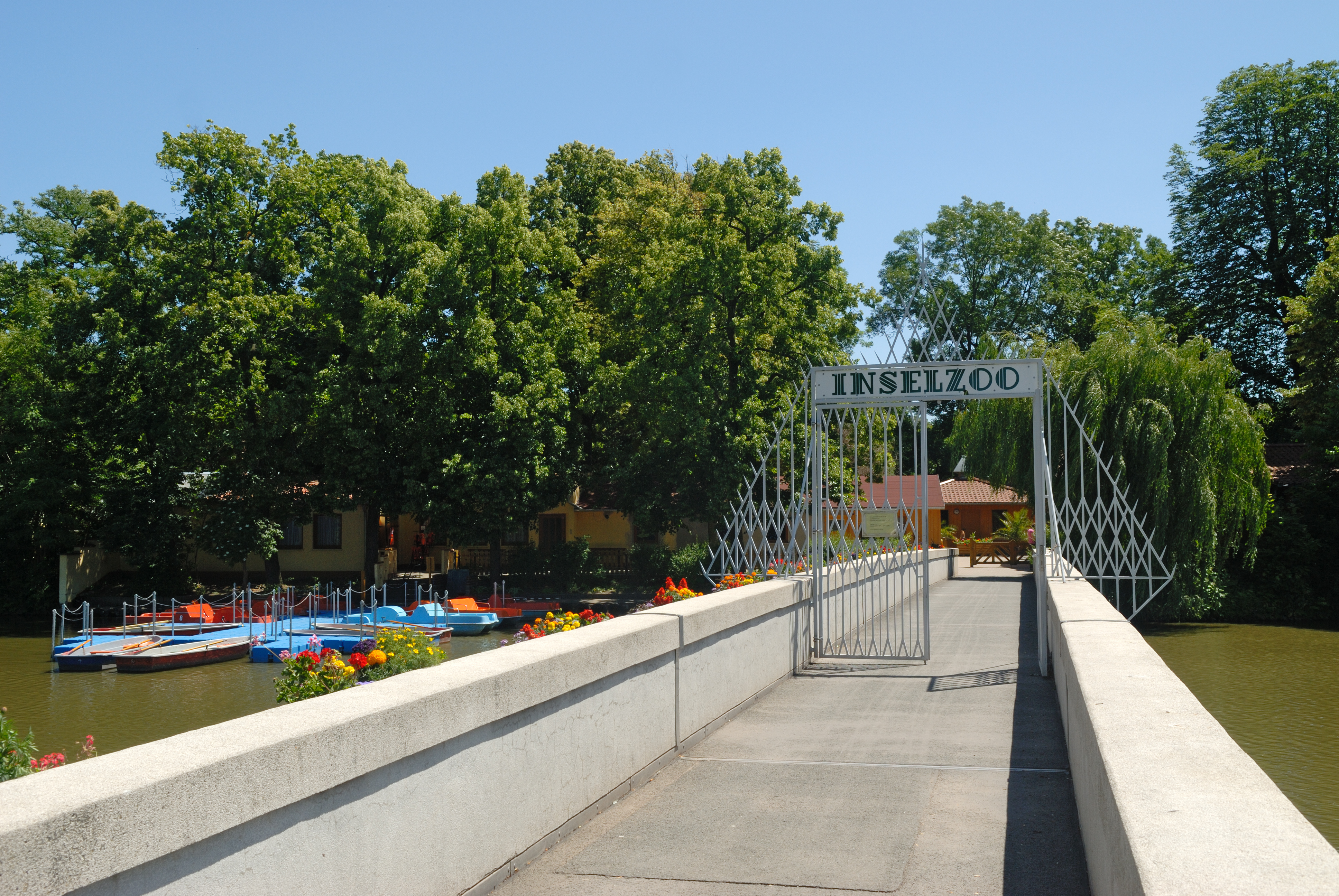 This image shows the entry of the island zoo in Altenburg, Thuringia, Germany.